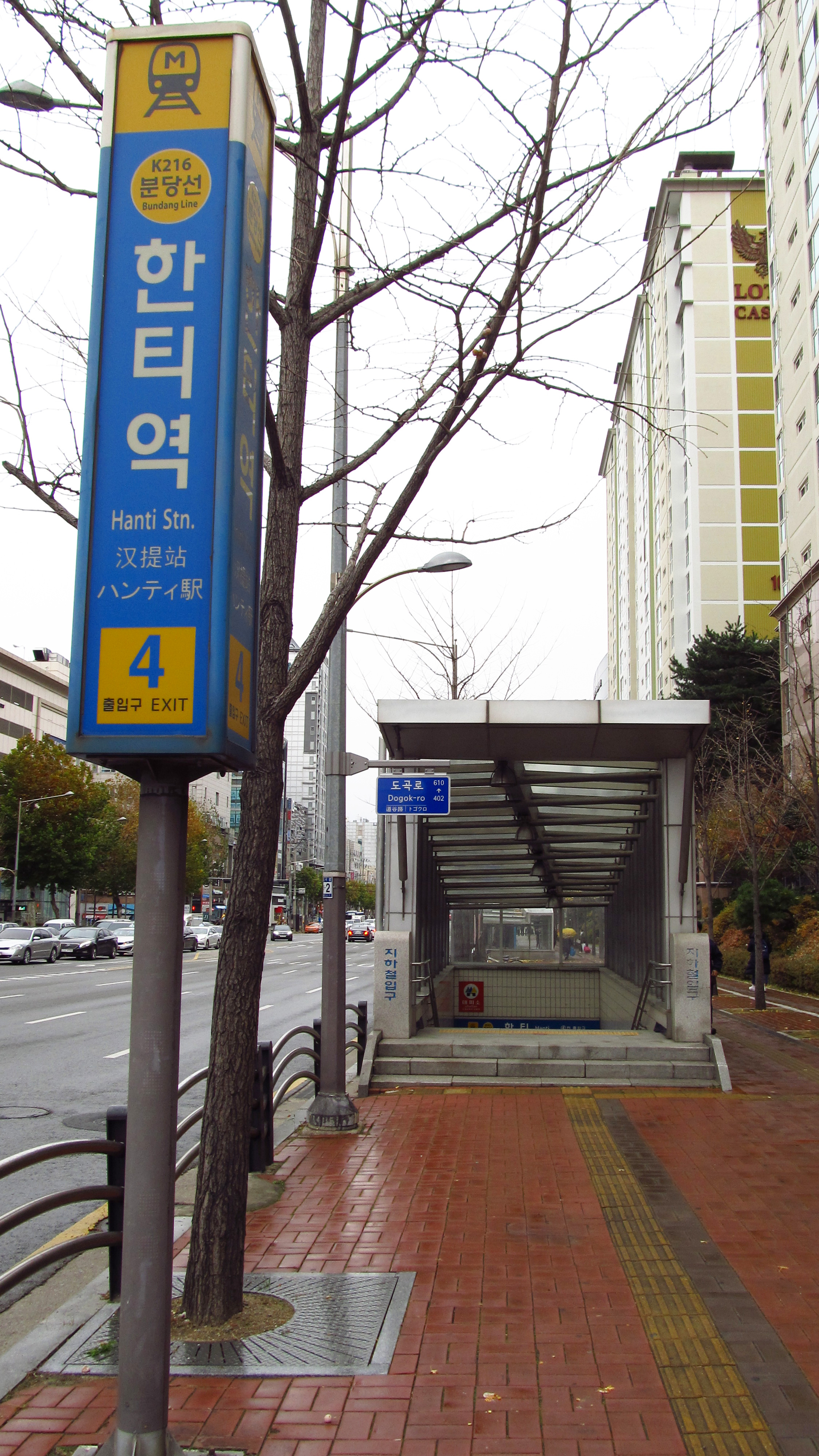 The no.4 entrance to Hanti Station on the Bundang Line in Gangnam-gu, Seoul, Republic of Korea(South Korea)